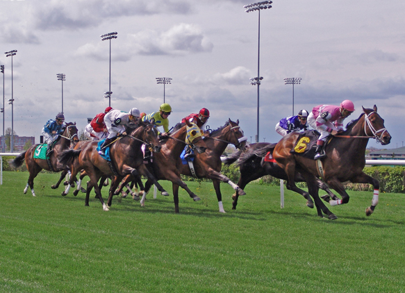 Woodbine's E.P.Taylor turf course. Photo by frakture.